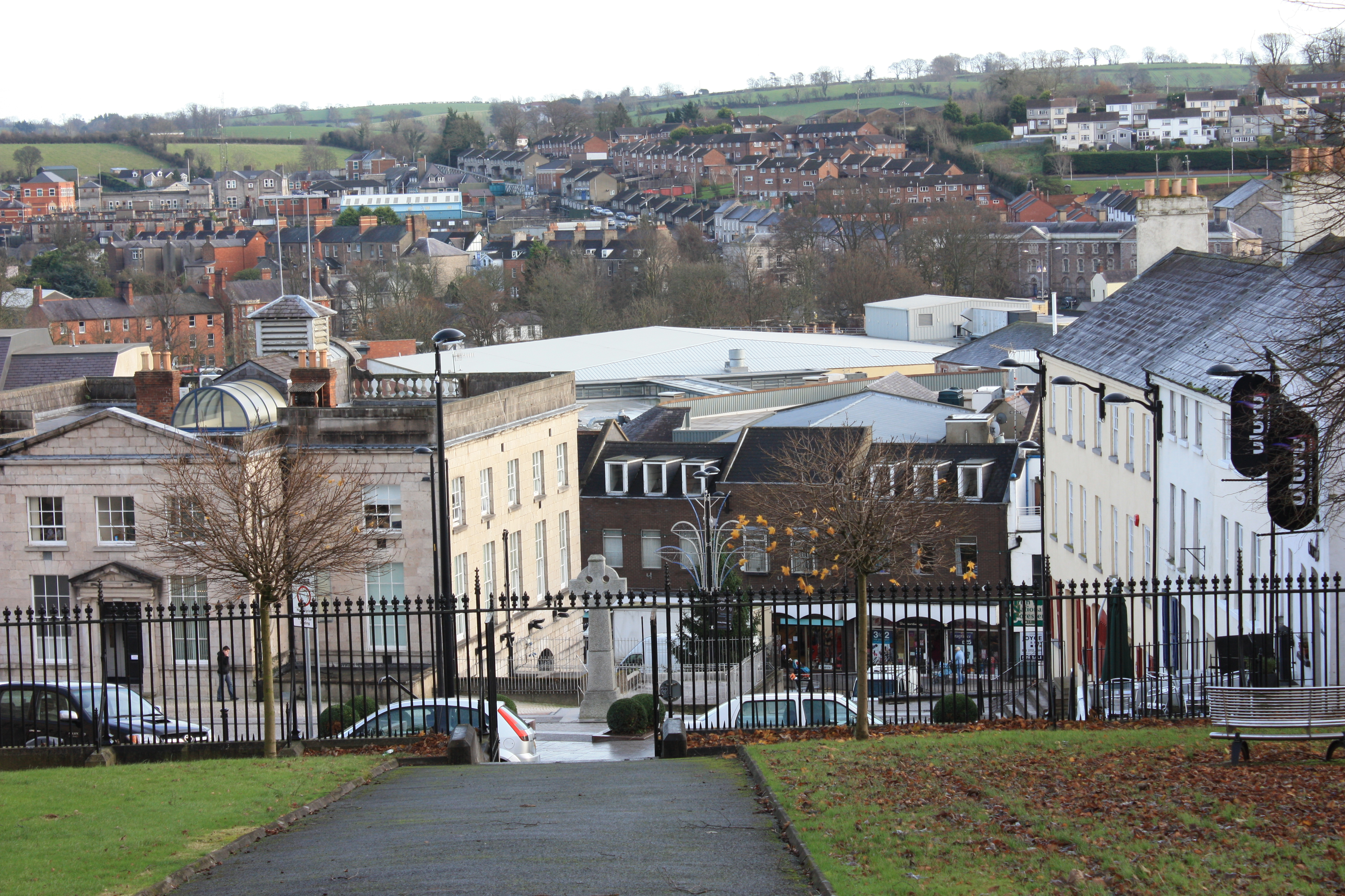 View over Armagh from the rear of St Patrick's (COI) Cathedral, Armagh, County Armagh, Northern Ireland, November 2009